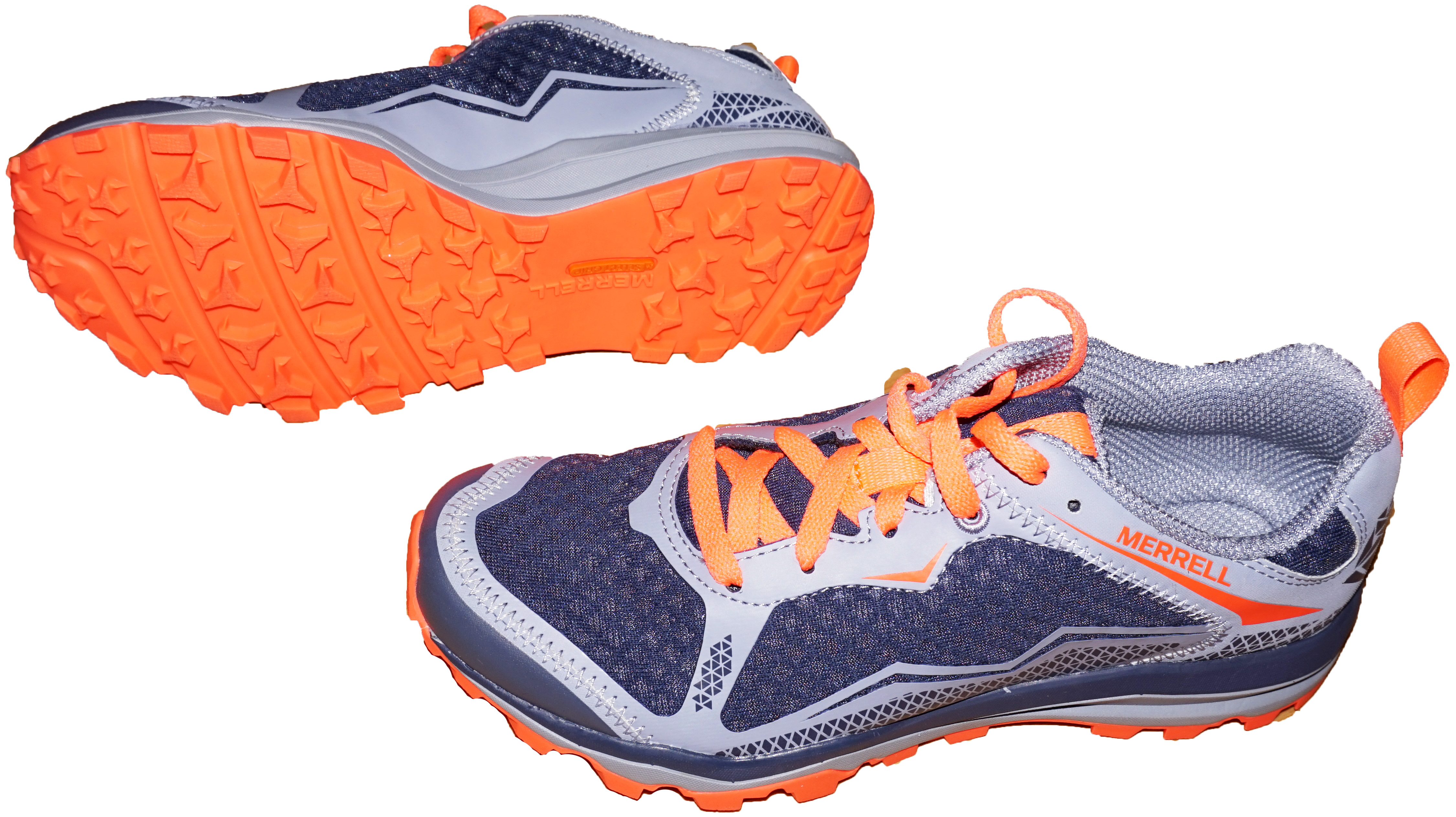 Merrell All Out Crush Light trail running shoes. Size 38, weight 181 grams / shoe.